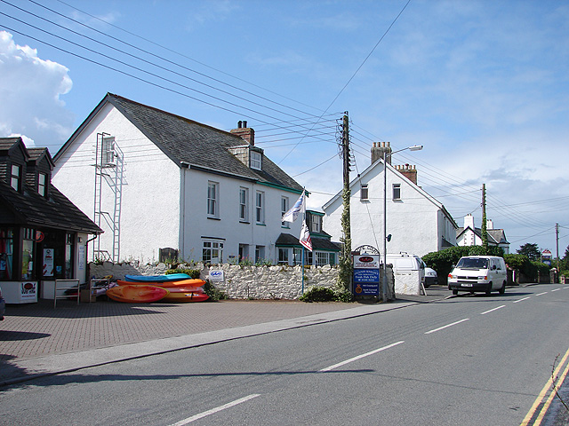 Rock Road, Splatt Near the centre of the square looking in a south-westerly direction. Taken during a brief sunny interlude on a very wet early July day.